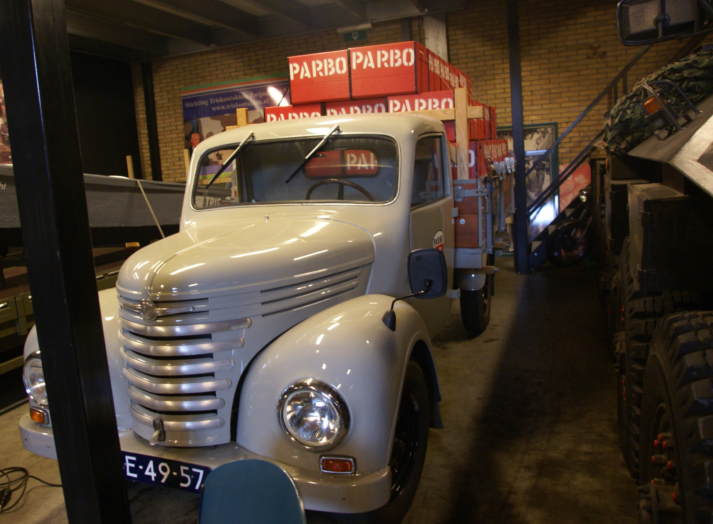 TRIS-museum, Zwijndrecht, The Netherlands.